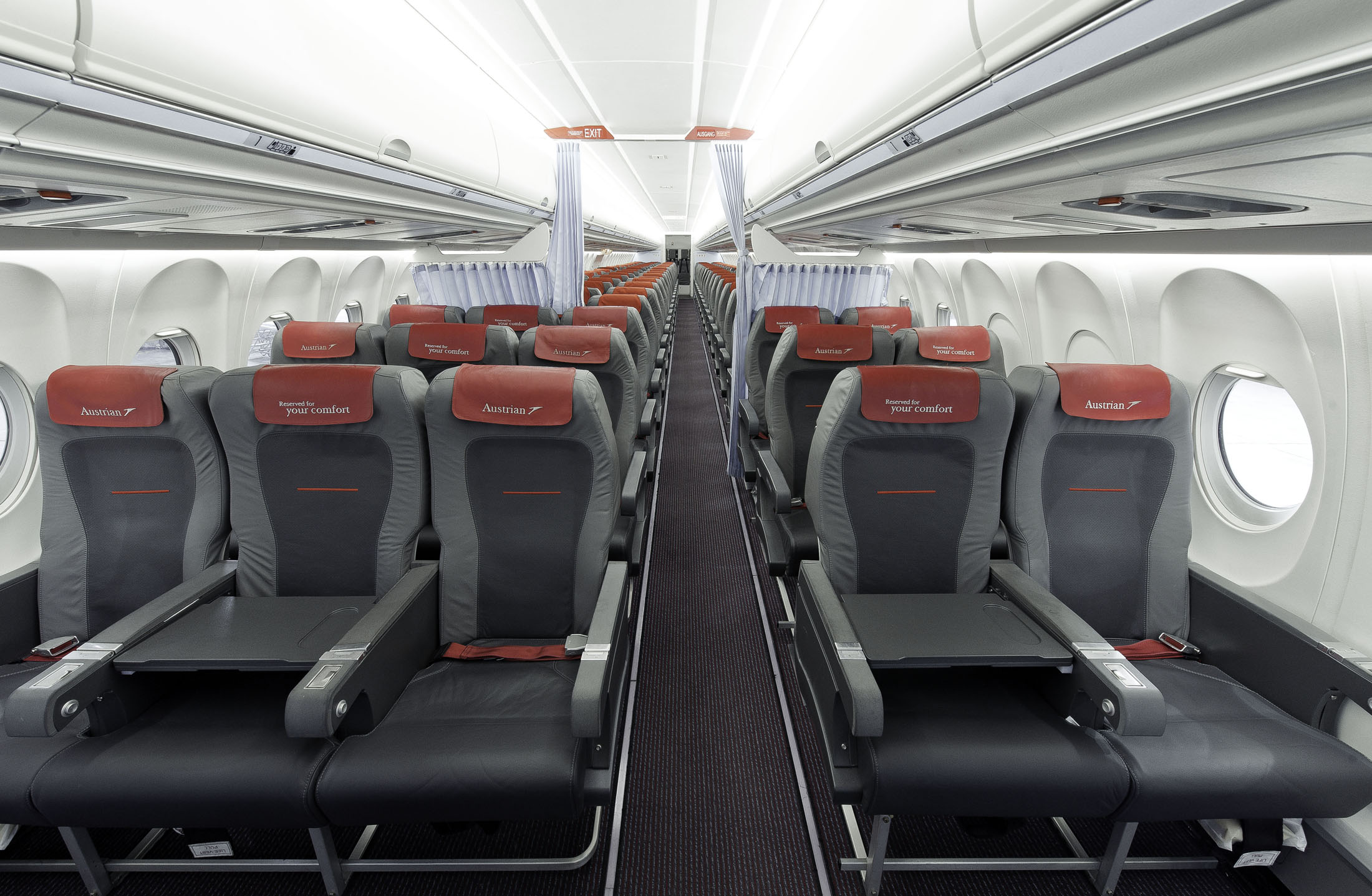 Economy class cabin of an Austrian Airlines Fokker F70